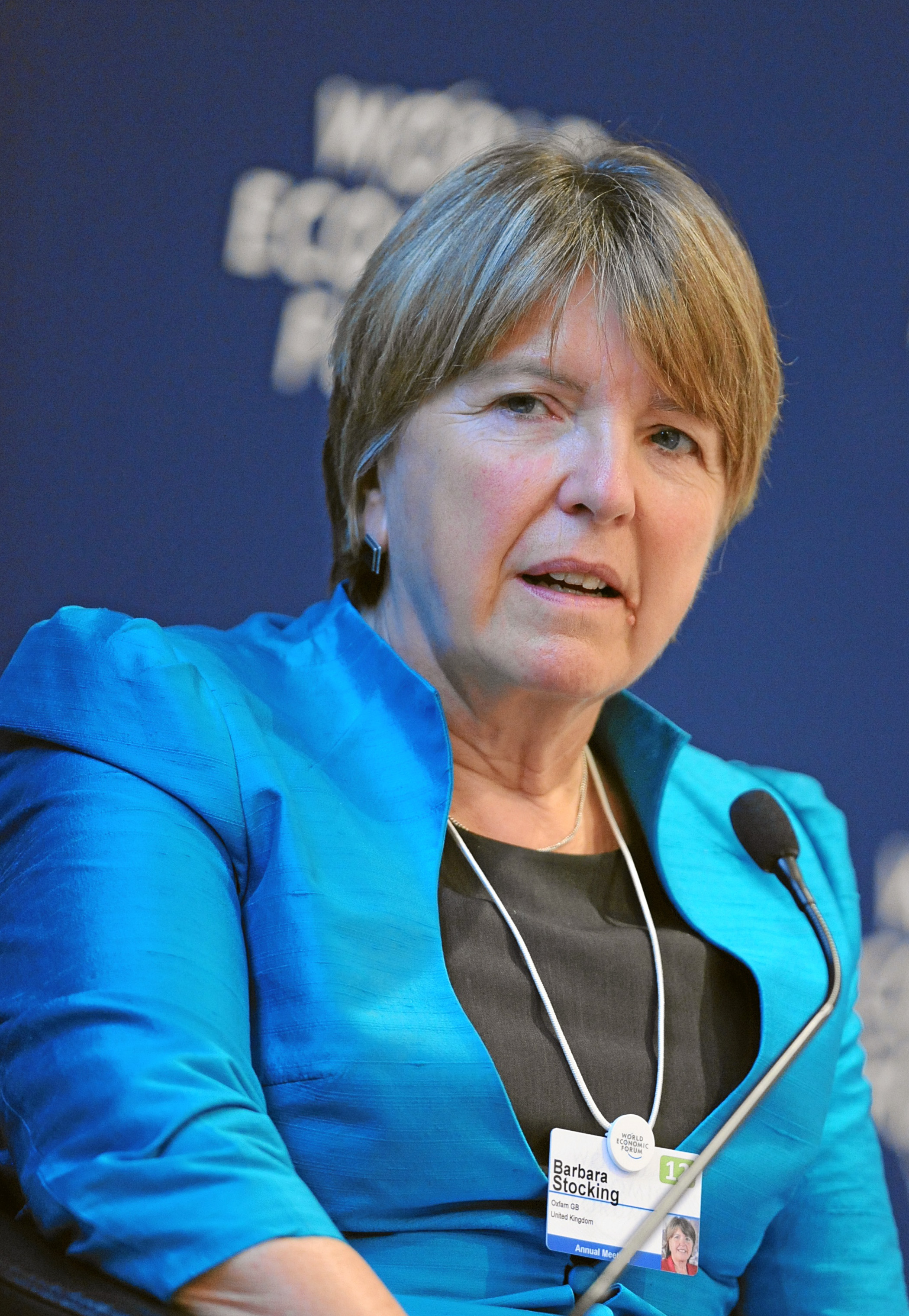 DAVOS/SWITZERLAND, 28JAN12 - Dame Barbara Stocking, Chief Executive, Oxfam GB, United Kingdom, is captured during the session 'G20 Reality Check' at the Annual Meeting 2012 of the World Economic Forum at the congress centre in Davos, Switzerland, January 28, 2012. Copyright by World Economic Forum by Michael Wuertenberg